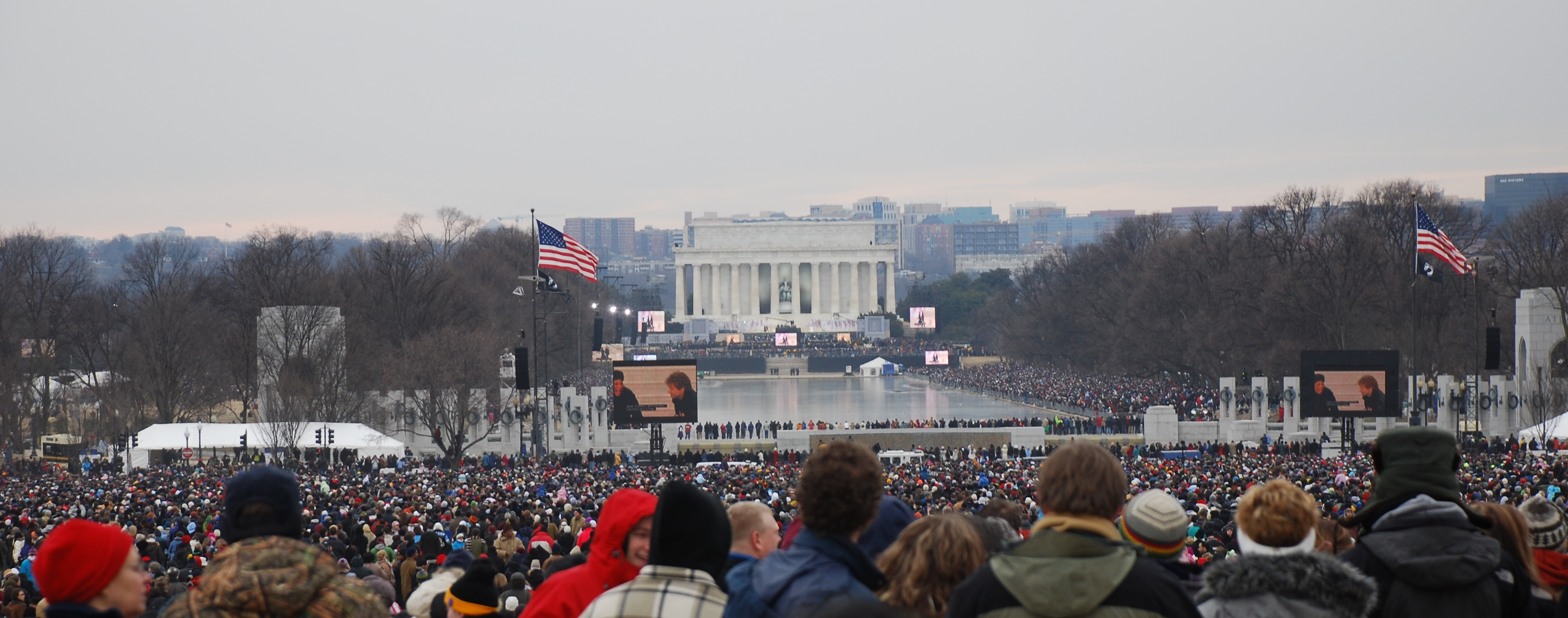 View of the We Are One concert at the Lincoln Memorial, part of the festivities of the Barack Obama 2009 presidential inauguration. Taken from near the Washington Monument.